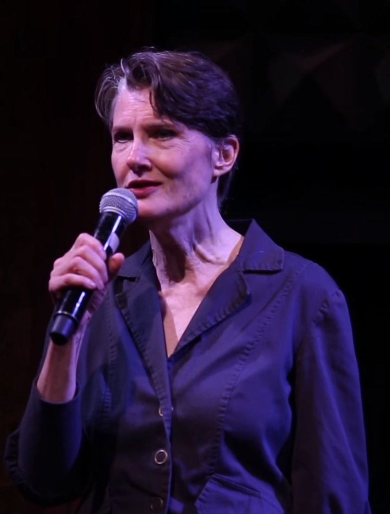 Nominated for an Academy Award for Best Original Song in a Motion Picture, "Kiss at the End of the Rainbow" was written by Annette O'Toole and Michael McKean for Christopher Guest's film "A Mighty Wind." Best known for her role in Smallville, actor Annette O'Toole has been acting on stage and screen since she was 15 and is currently starring at The Public Theater in Southern Comfort. Together, this husband and wife team performed their award winning song on Employee of the Month hosted by Catie Lazarus. To hear our full conversation, listen to Employee of the Month podcast on SoundCloud or iTunes. New interviews each week. Connect with EOTM: Website: Facebook: Twitter: Recorded February 2016 at Joe's Pub | Video by Adam Abel, Meredith Kaufman Younger, and Dan Zimmer